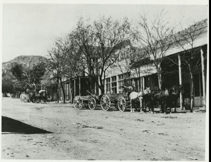 Clark's Place and S. Thompson General Merchandise in Pioche, Nevada in 1906